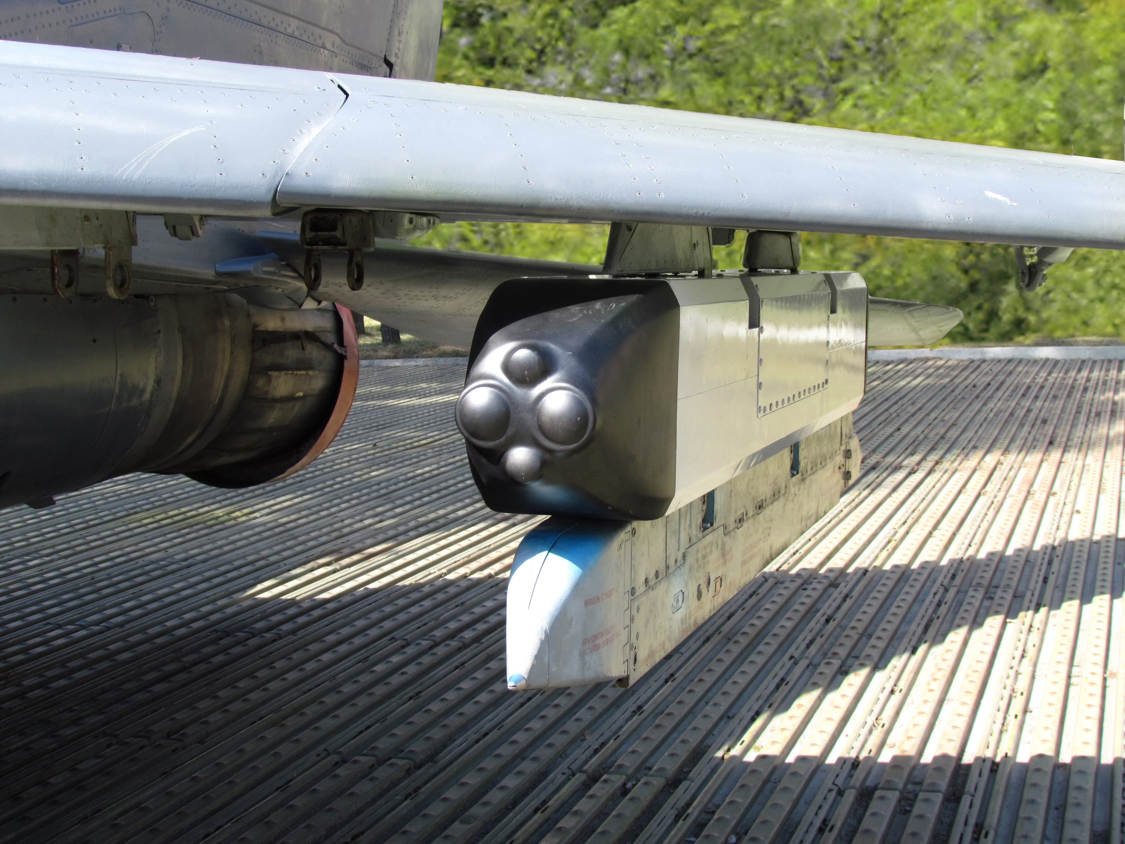 Talisman under the wing